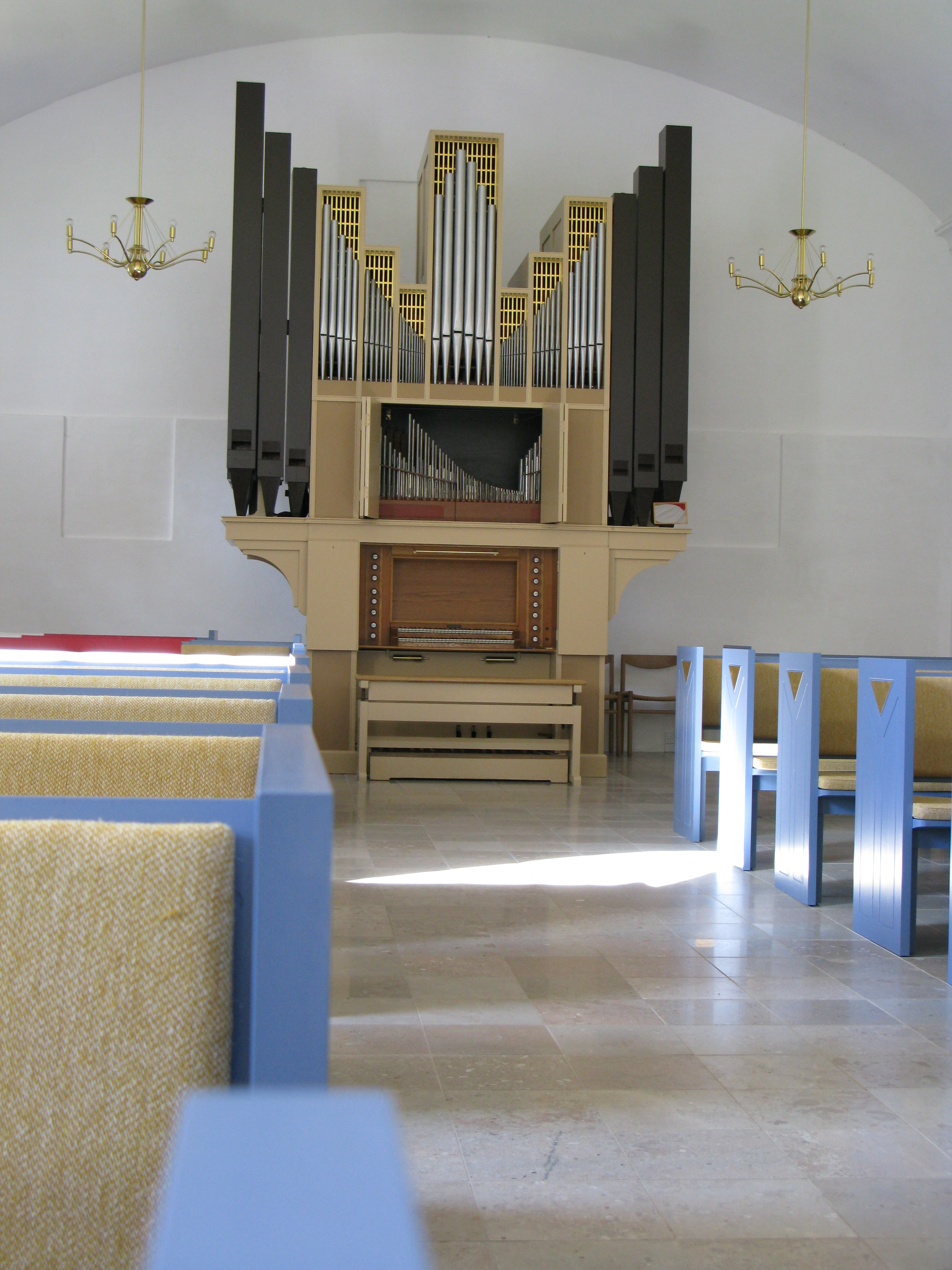 Organ of Fladstrand Church, Frederikshavn deaconry, Diocese Aalborg; build by Marcussen og Soen, Aabenraa